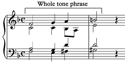 "Es ist genug" by J.S.Bach (cropped)